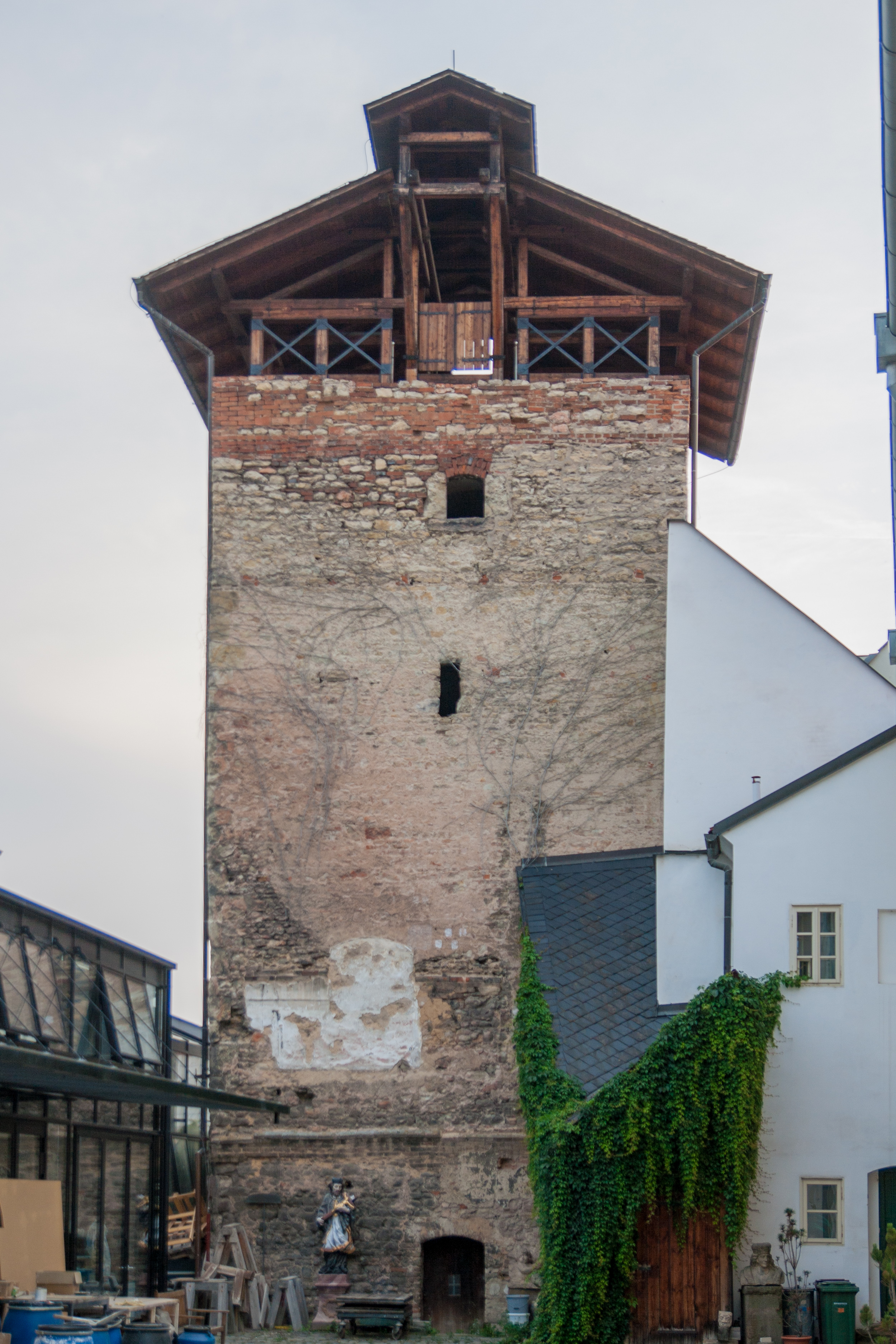 Červená věž (The Red Tower), part of the city walls of Litomyšl, Svitavy District, Pardubice Region, Czechia